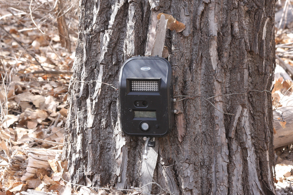 Bosque del Apache National Wildlife Refuge, NM Camera trap project by Matthew Farley, Jennifer Miyashiro and James Stuart Photo made available by J.N. Stuart, Creative Commons